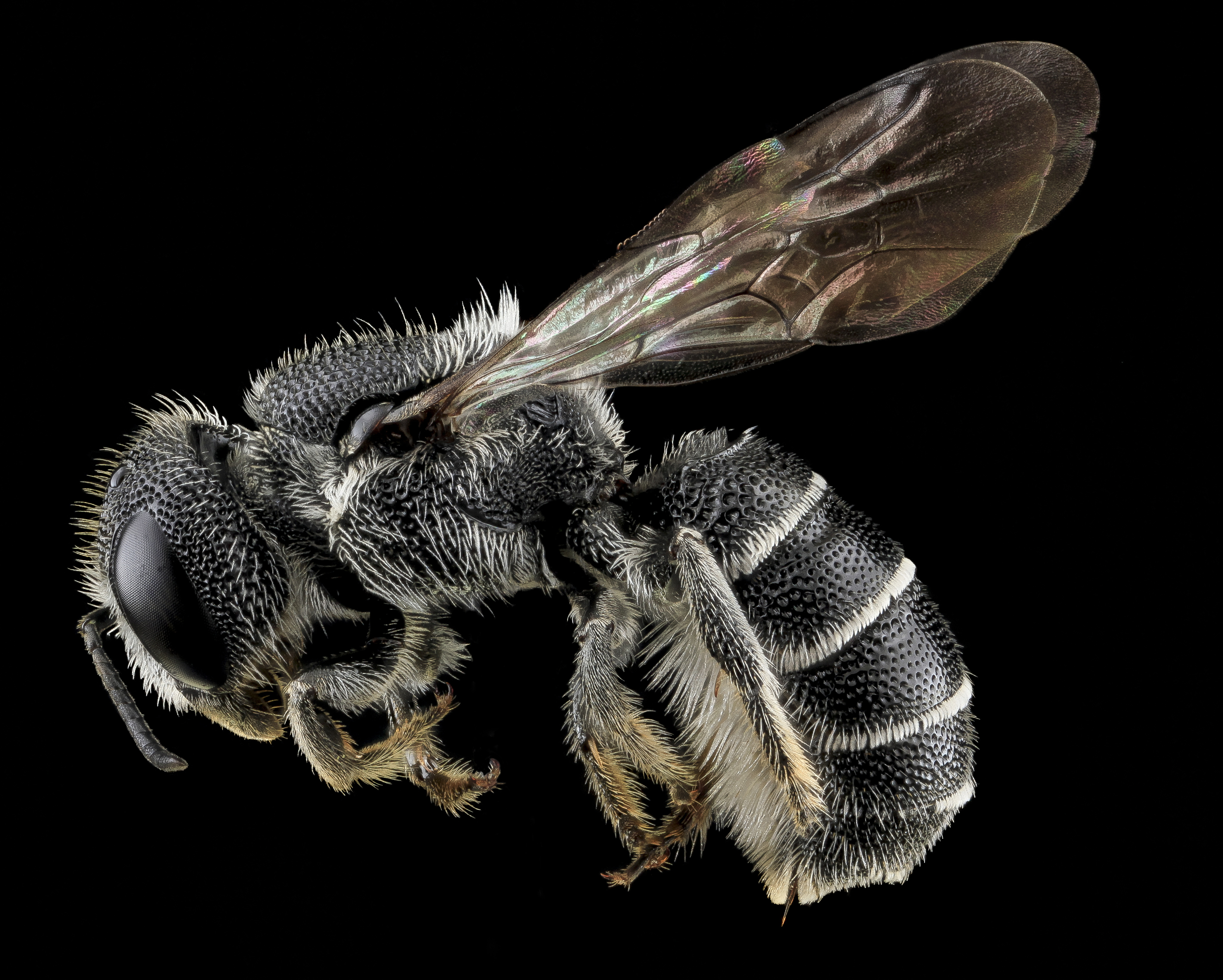 Heriades carinatus, female. A small hole nesting bee related to Osmia, beautifully arrayed in dark black pitting and short, prone, white bands of hair. Found at Wolf Trap National Park for the Perfoming Arts in Virginia